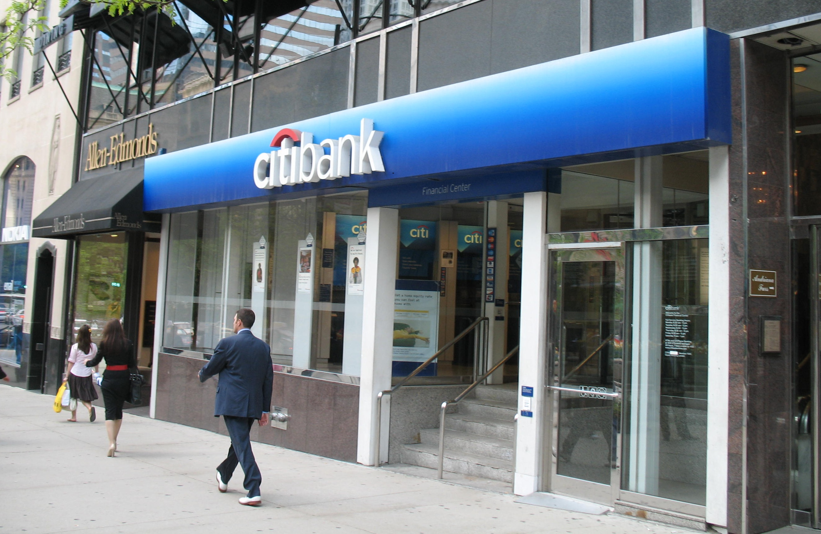 Citibank